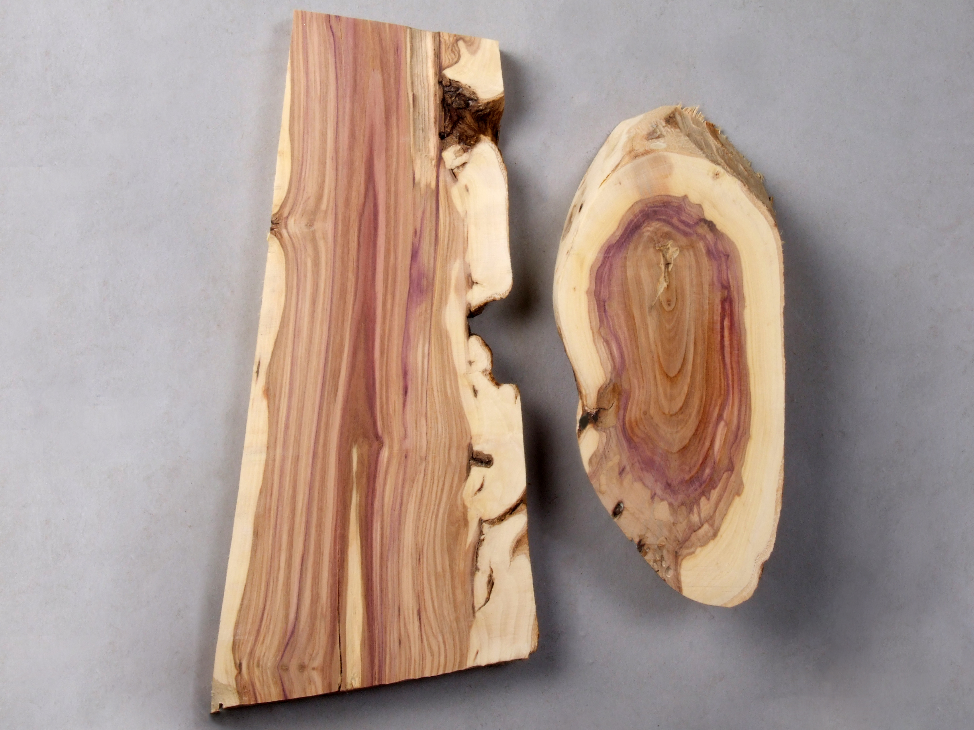 Wood of Syringa vulgaris. Approximately 20 years old shrub.